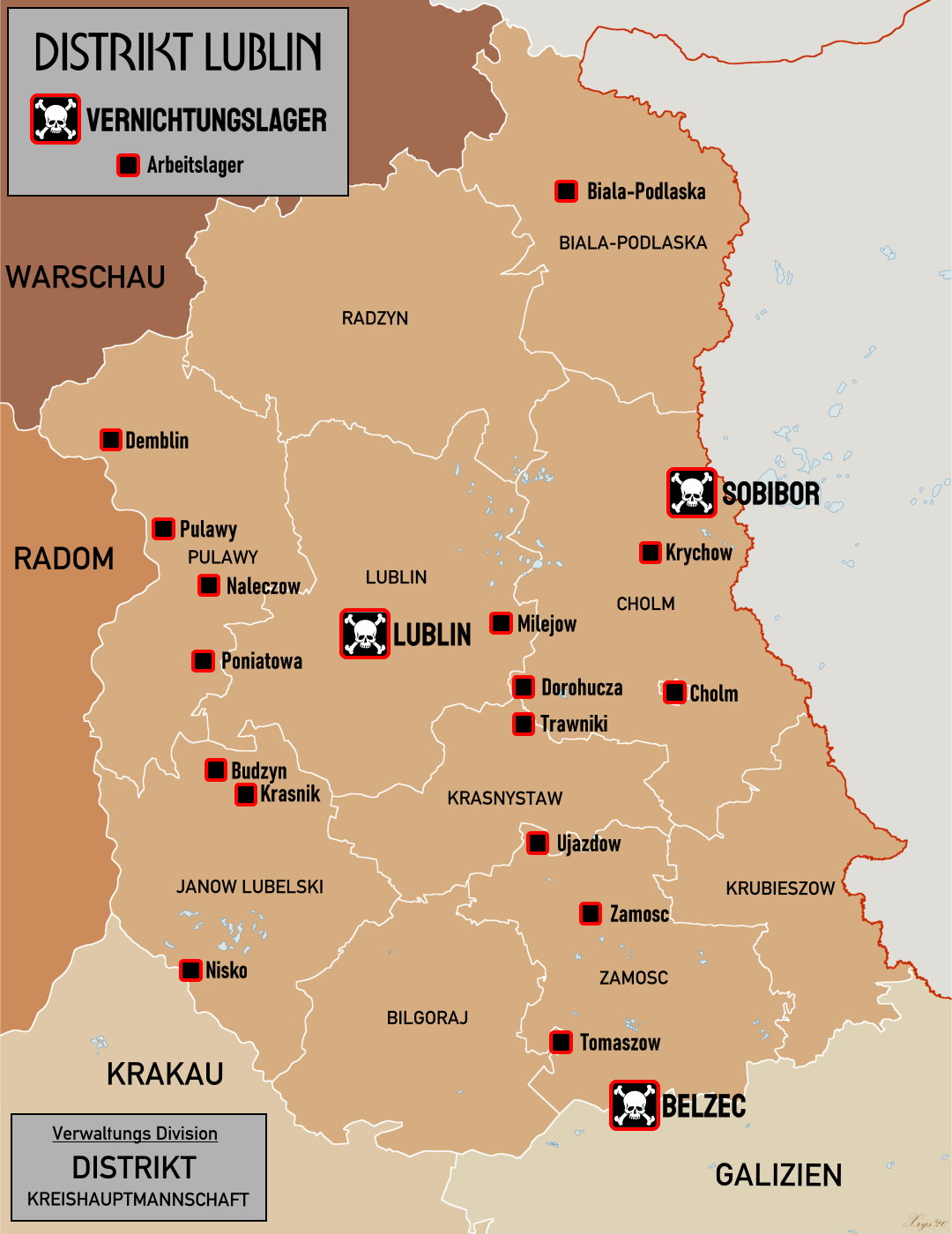 Extermination and Work camps in District Lublin of the General Government